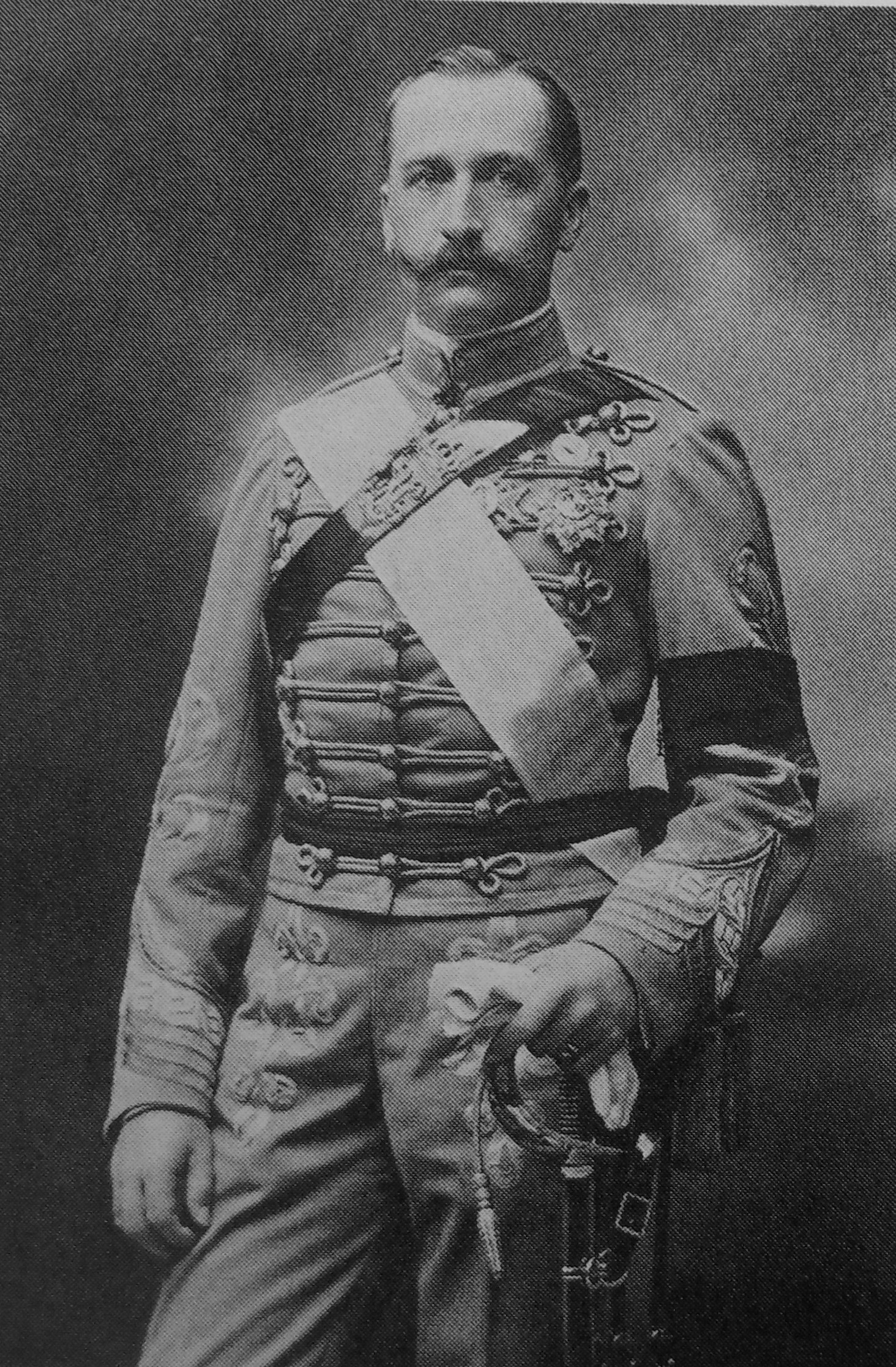 Prince Carlos of Bourbon-Two Sicilies Infante of Spain